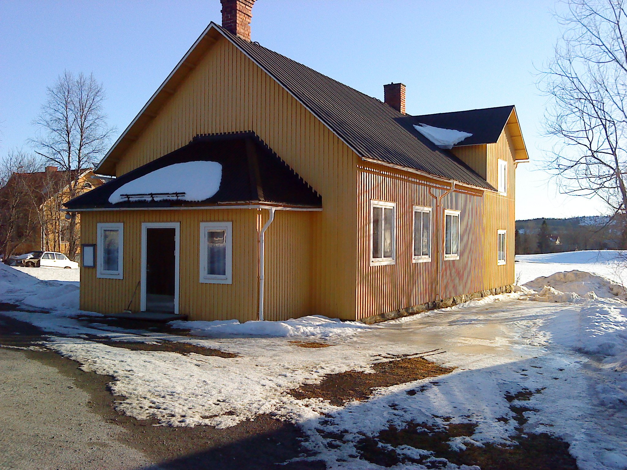 Betania in Kaxås, Offerdal, Krokoms kommun, Jämtland, Sweden